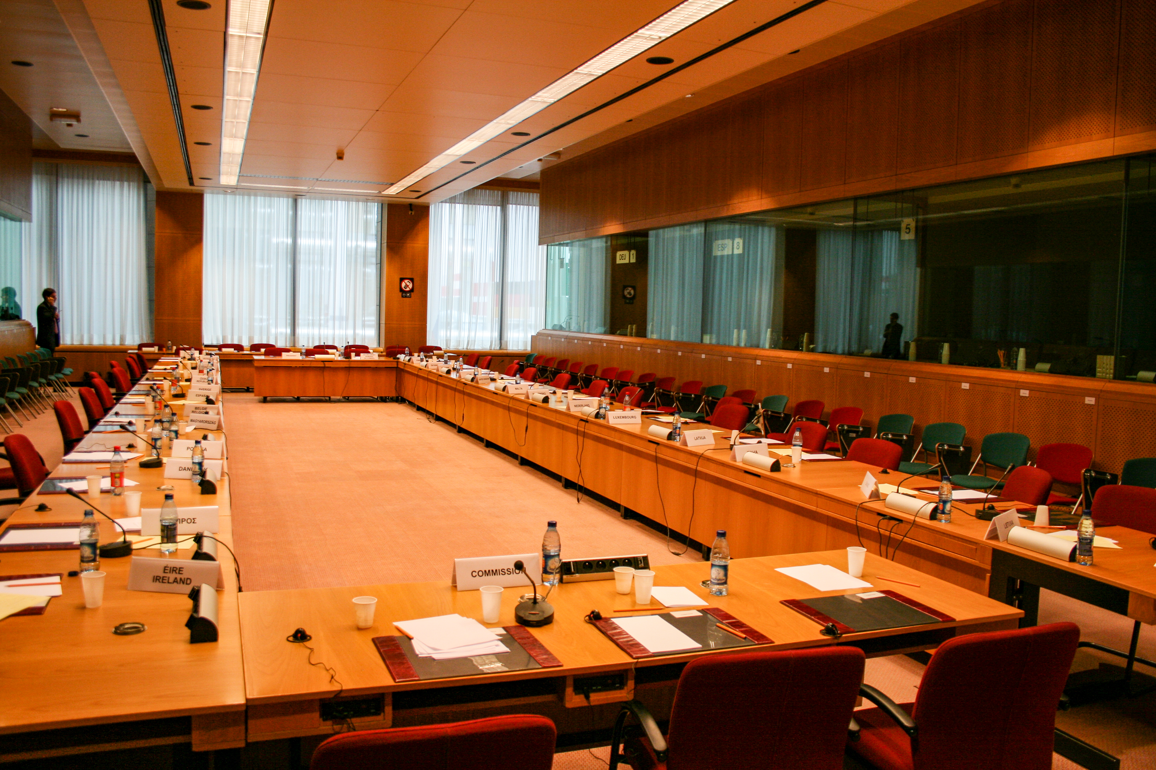 HQ of the Council of the European Union, Justus Lipsius building, meeting room for working groups